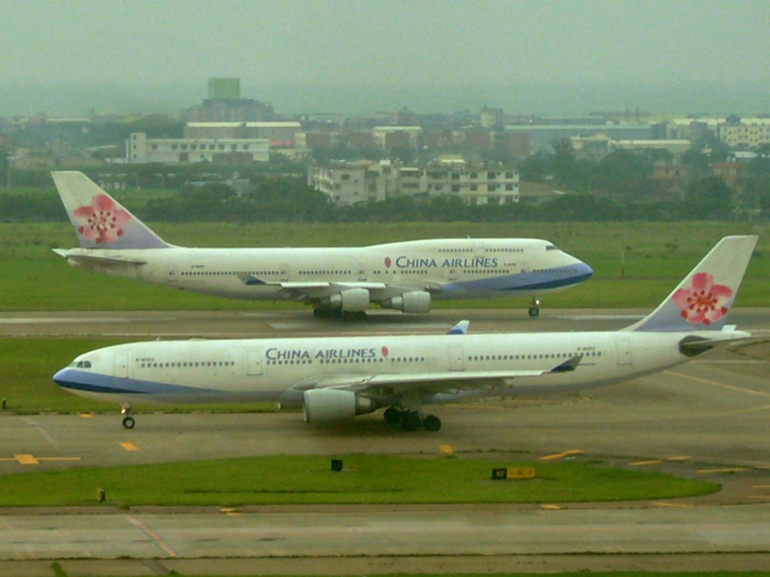 China Airlines Airbus A330-300 + Boeing 747-400